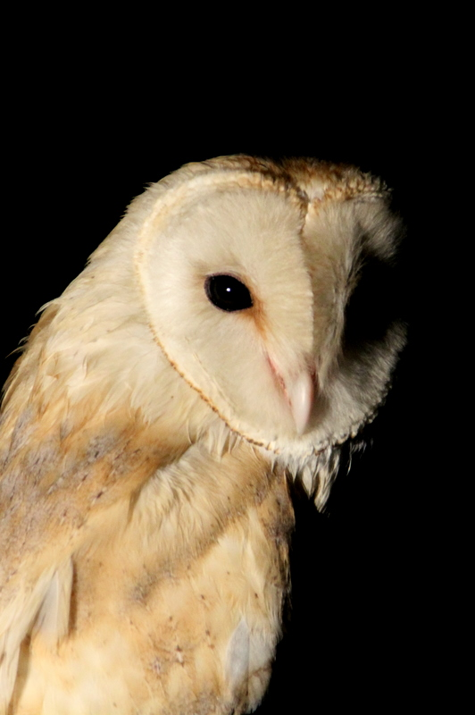 Barn Owl photographed at Al Watbah Camel Racetrack, Abu Dhabi, UAE